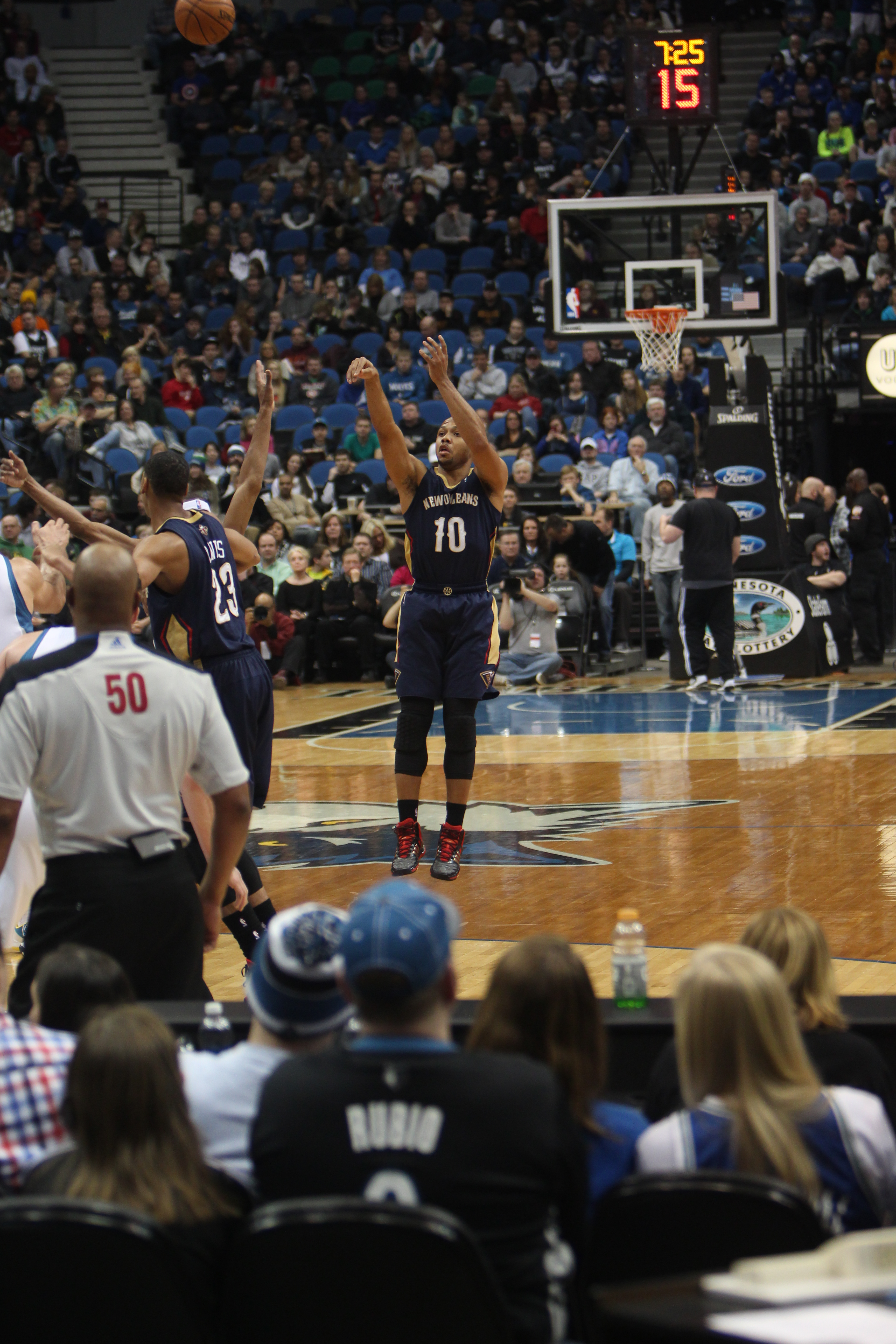 Eric Gordon at the Target Center